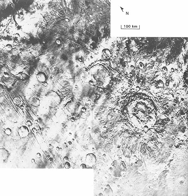 Lowell crater, on Mars. This is a figure on p.82 of NASA SP-441: VIKING ORBITER VIEWS OF MARS, which has the following caption: Lowell Crater. As on the Moon and Mercury, very large impacts form multiringed basins such as this 210-km diameter crater. Radial lines of secondary craters are clearly visible outside the more disordered terrain close to the rim crest, despite partial dissection by small channels. The smooth feature in the center of the basin may be a low-lying cloud. To the north of Lowell, near the center of the picture is Slipher Crater. 34A17-20; 52°S, 81°W